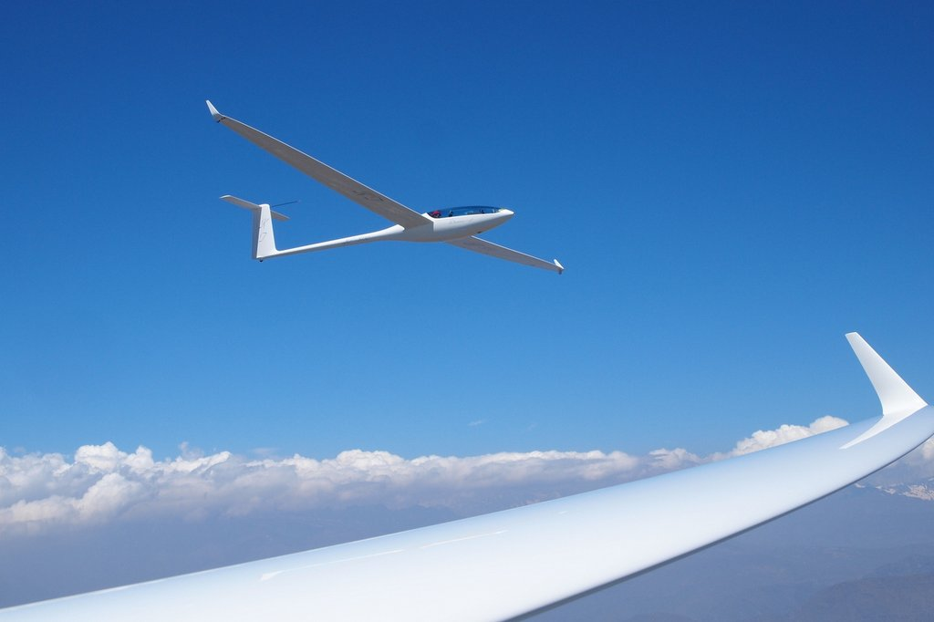 Glider pilots Thomas Gostner and Sebastian Kawa flying over the Andes mountain range